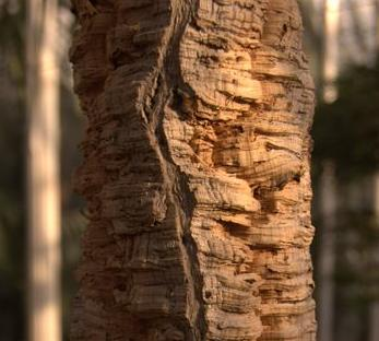 This is the trunk of a Cork Oak with its characteristicly quirky bark.